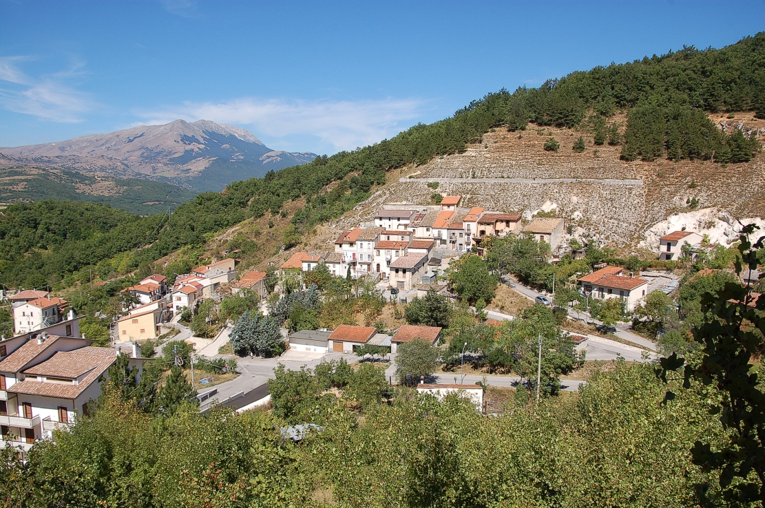 Goriano Sicoli